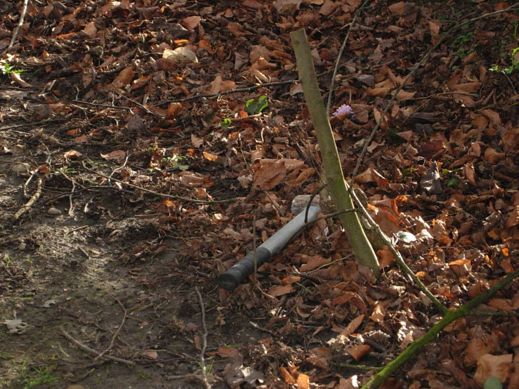 The hammer which was found in the park and is believed to be the tool used to desecrate the Armenian Genocide monument.